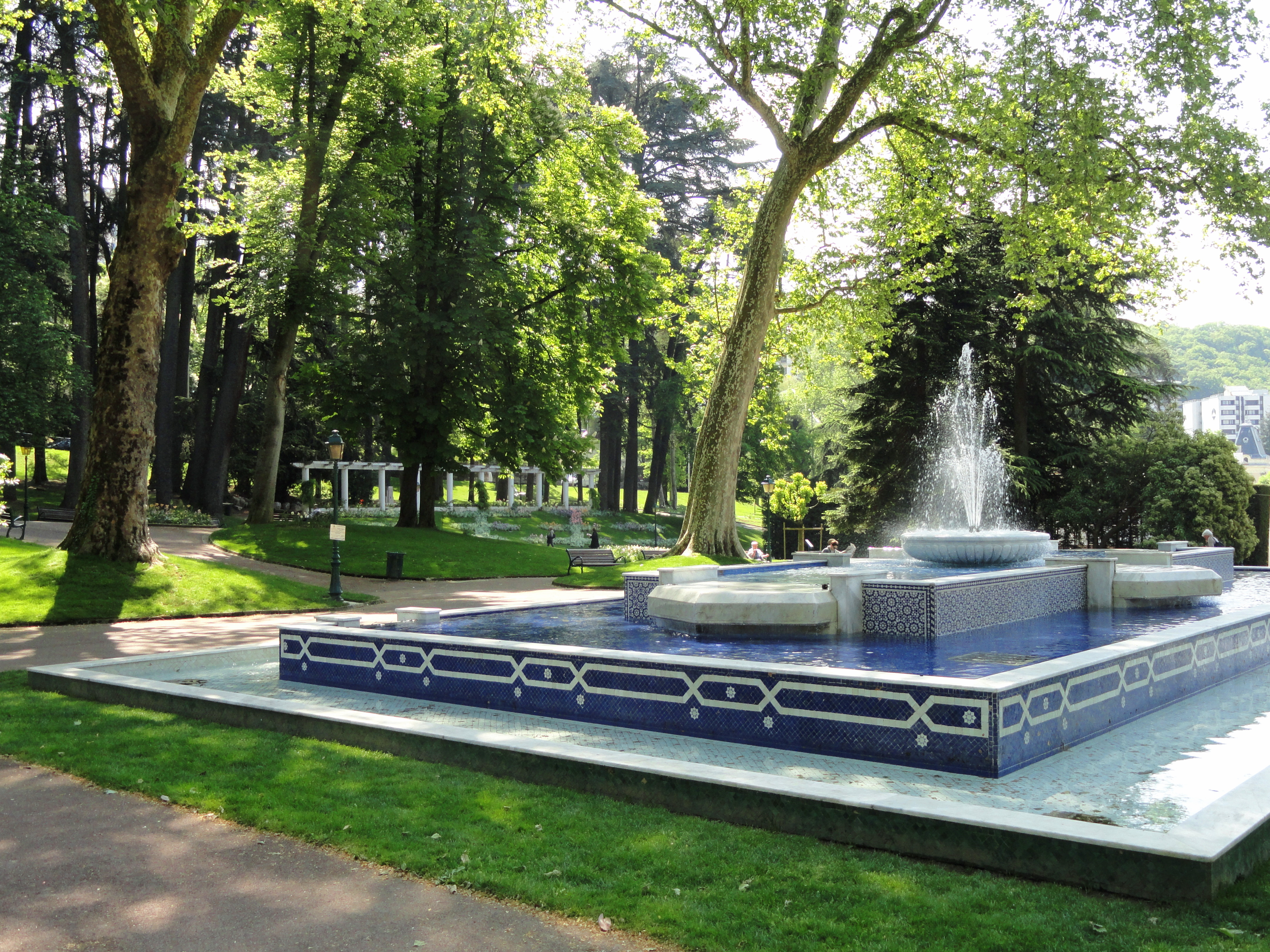 Fontaine marocaine, in the Parc floral des Thermes, Aix-les-Bains, France.